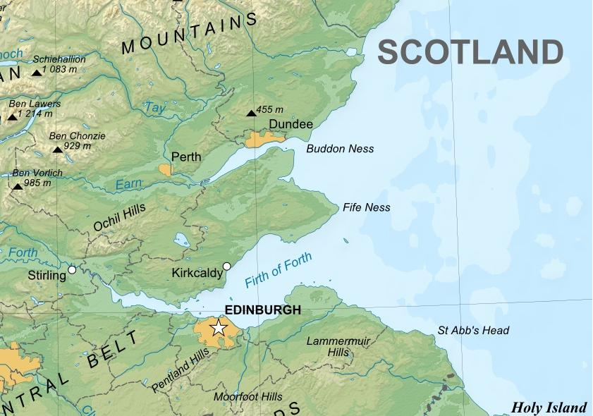 A cut of Scotland map on Wikipedia.